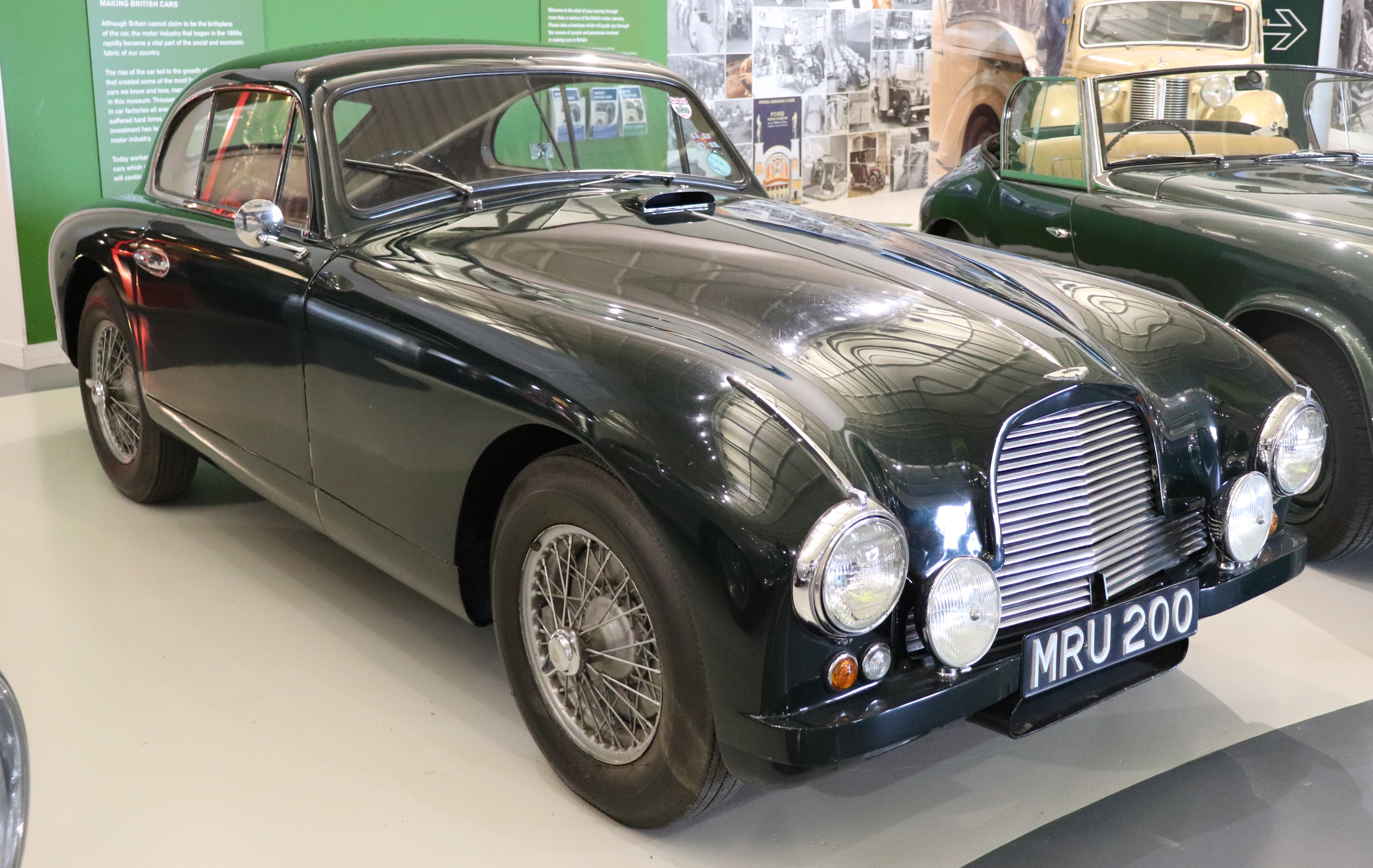 1952 Aston Martin DB2 2.6 Front Taken at the British Motor Museum, Gaydon